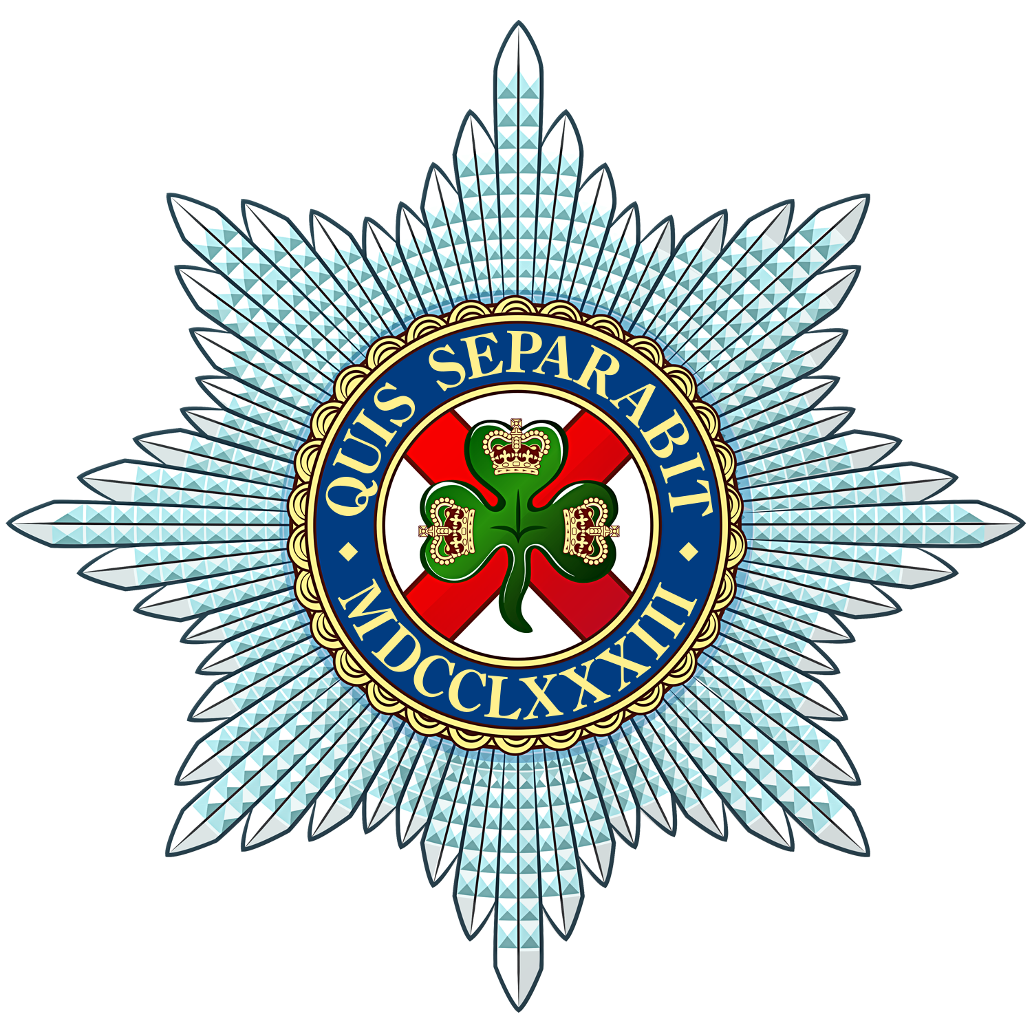 Regimental badge of the Irish Guards (IG) - one of the Foot Guards regiments of the British Army.